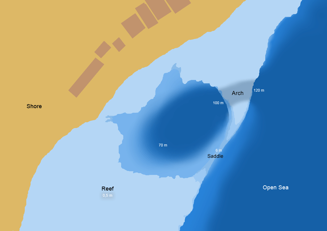 blue hole - Egypt - Dahab - sinai - red sea - map - plan